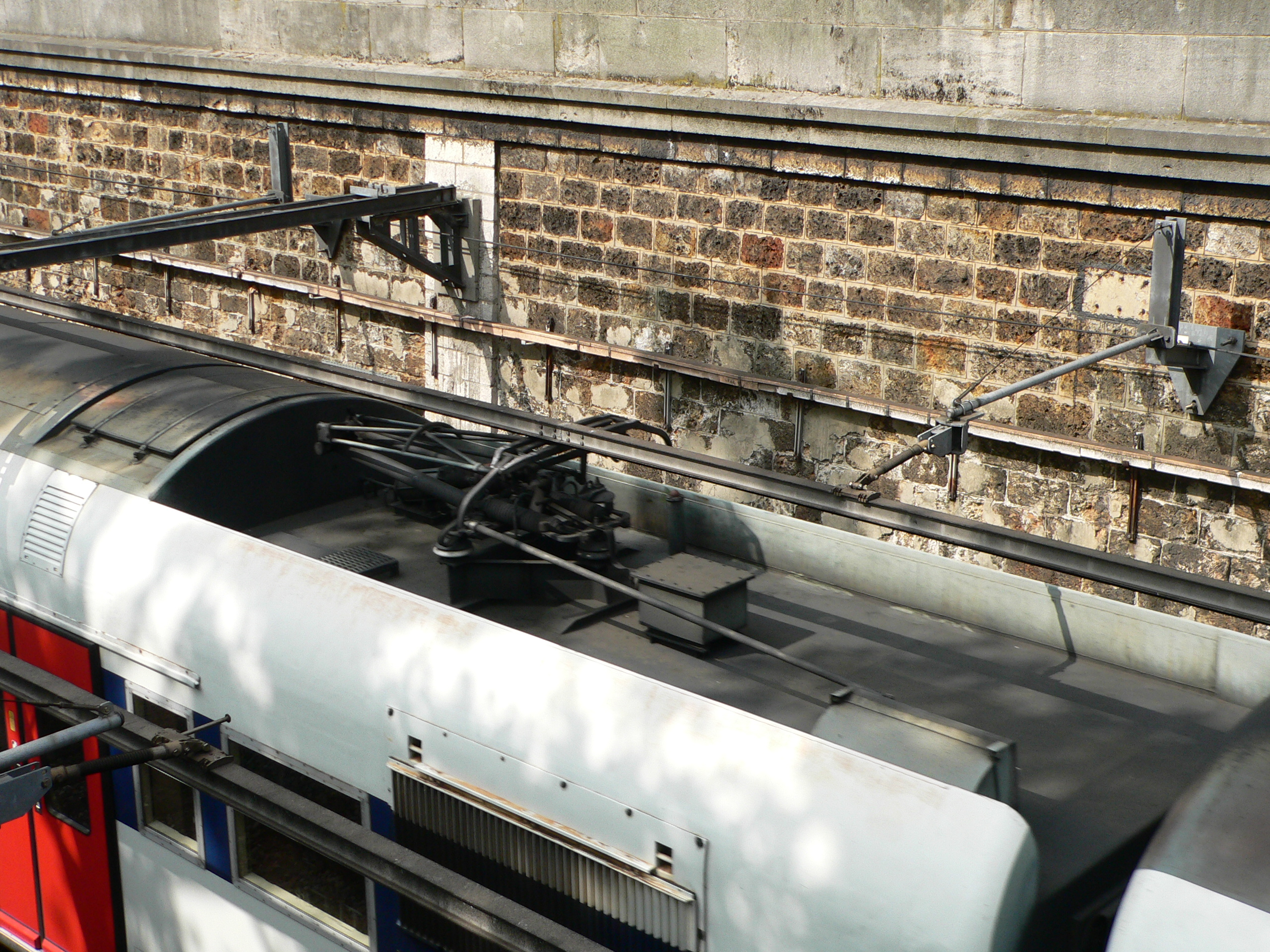 Overhead rail electrical system used in the RER C trenches and tunnels in central Paris (here taken at the Square Tino Rossi between Gare d'Austerlitz and St Michel).